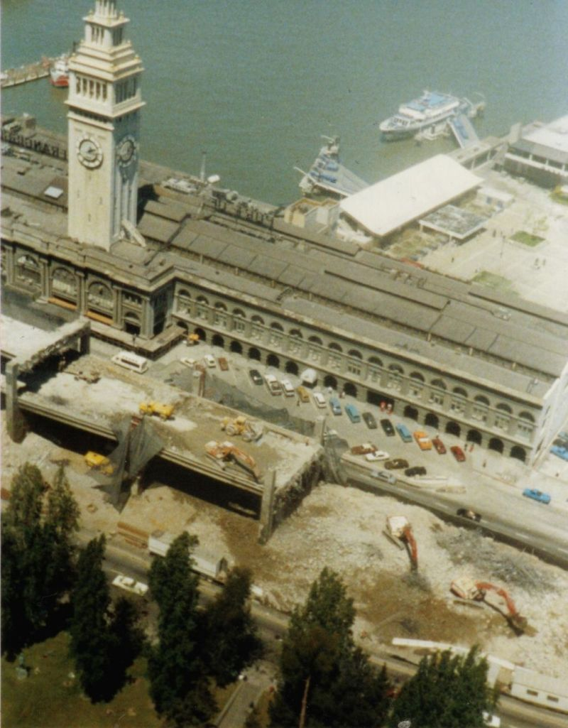 Scan of a picture dated May 9th, 1991 of a section of the Embarcadero Freeway in front of the Ferry Building being torn down